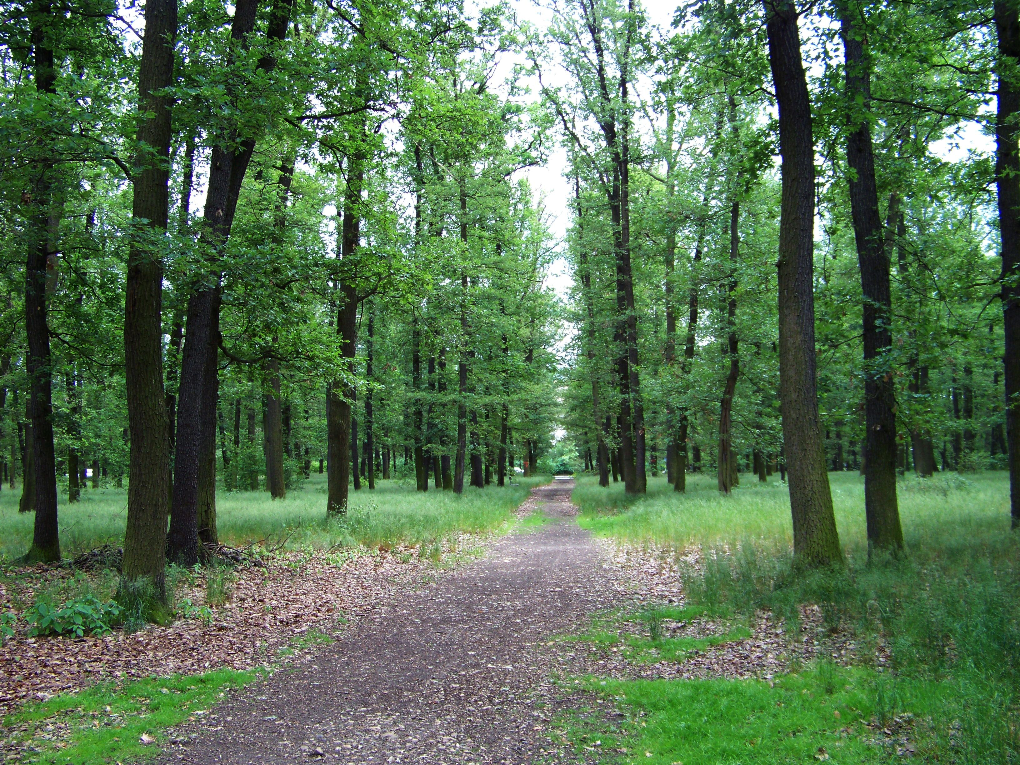 Prague-Krč, the Czech Republic. Velký háj forest. - Google Maps - Google Earth